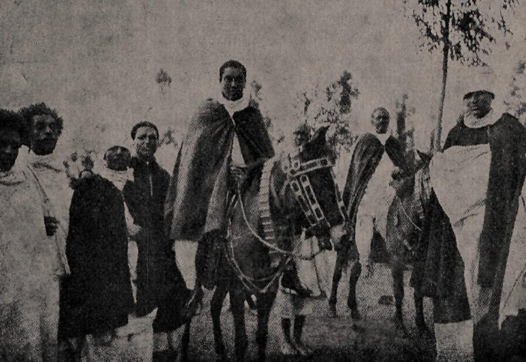 Press photograph in Transylvania's Cosânzeana review. Original caption: "Lidsch Ieassu, a grandson of Menelik, the new Emperor of Abyssinia, riding, surrounded by his 'court' [sic]." This refers to Iyasu V of Ethiopia, aka Lij Iyasu.